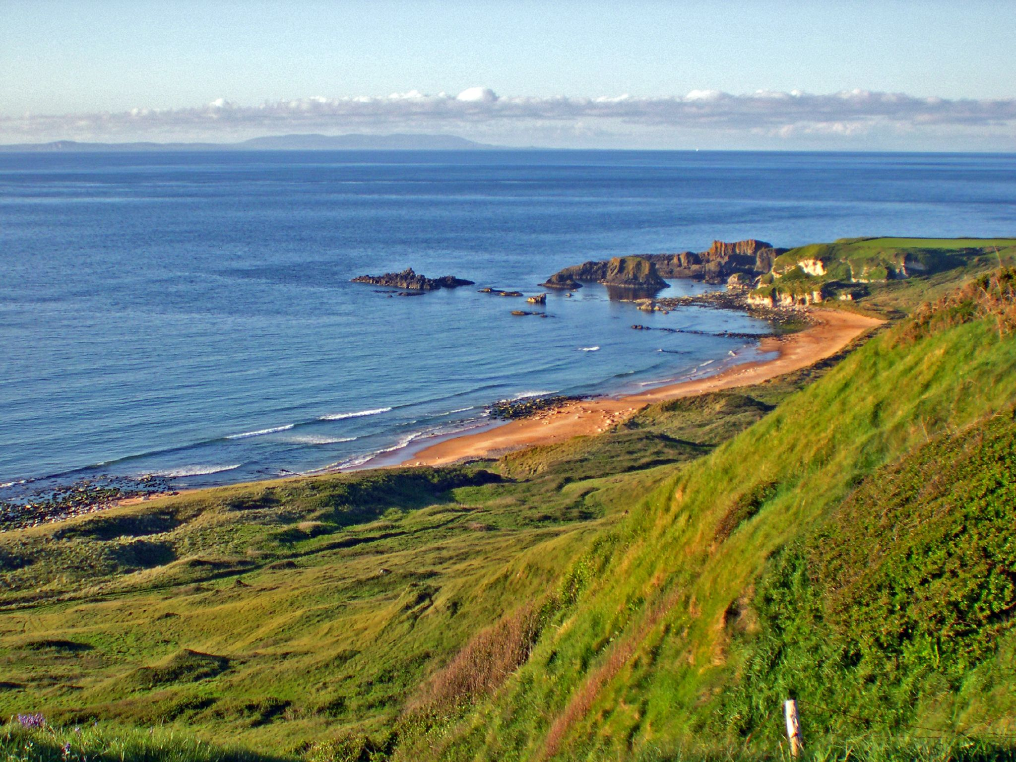 White Park Bay near Ballintoy, County Antrim, Northern Ireland (owned by the National Trust for Places of Historic Interest or Natural Beauty)